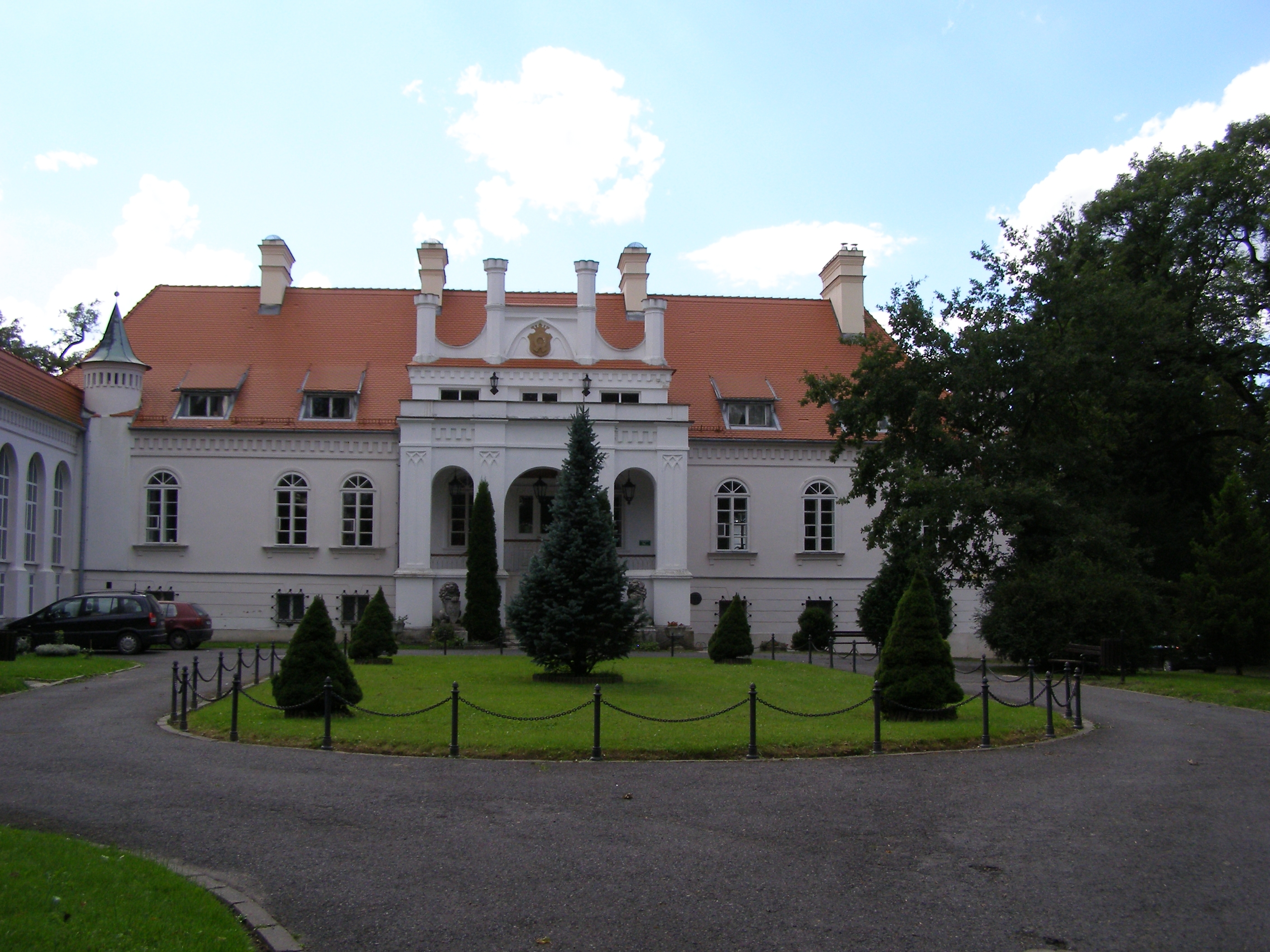 Janowice - palace